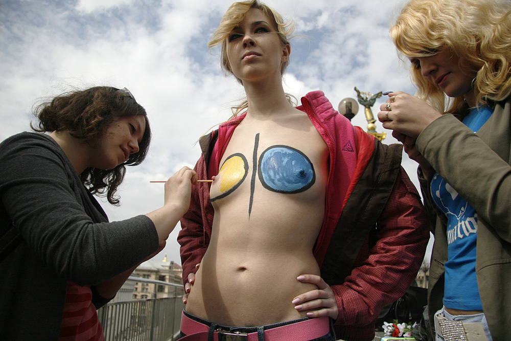 "11 April 2010 New FEMEN logo painted on Sasha Shevchenko before the presentation. 2 years of FEMEN: logo form famous Russian Designer Artemiy Lebedev plus world fame!"